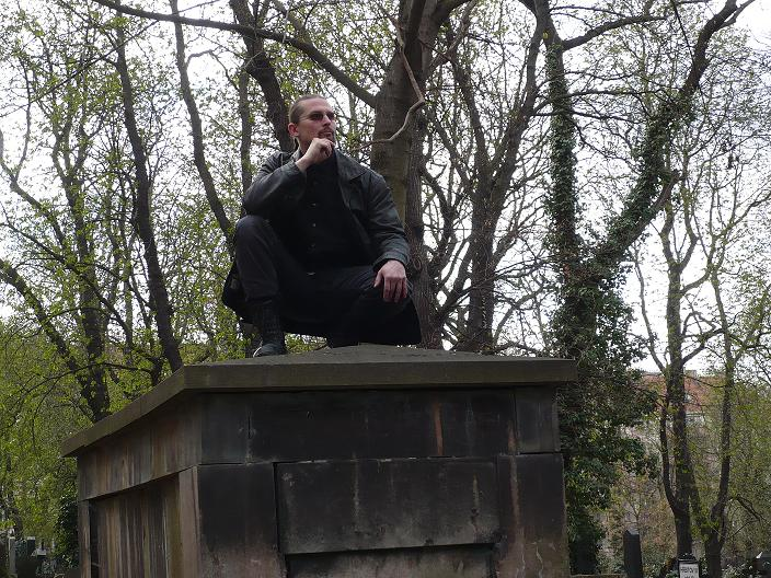 Pavel Brndiar